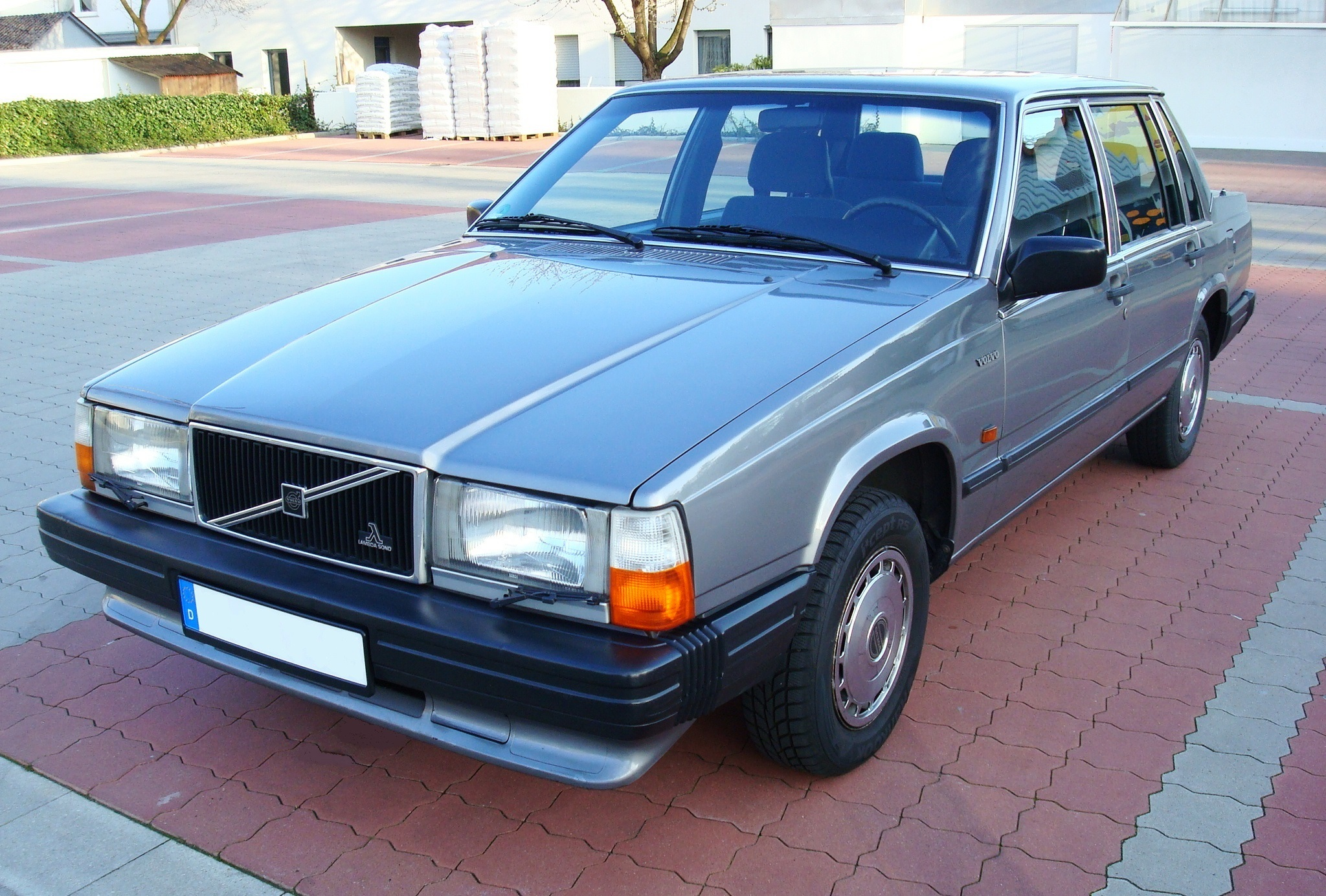 Volvo 740 GL -1987- front